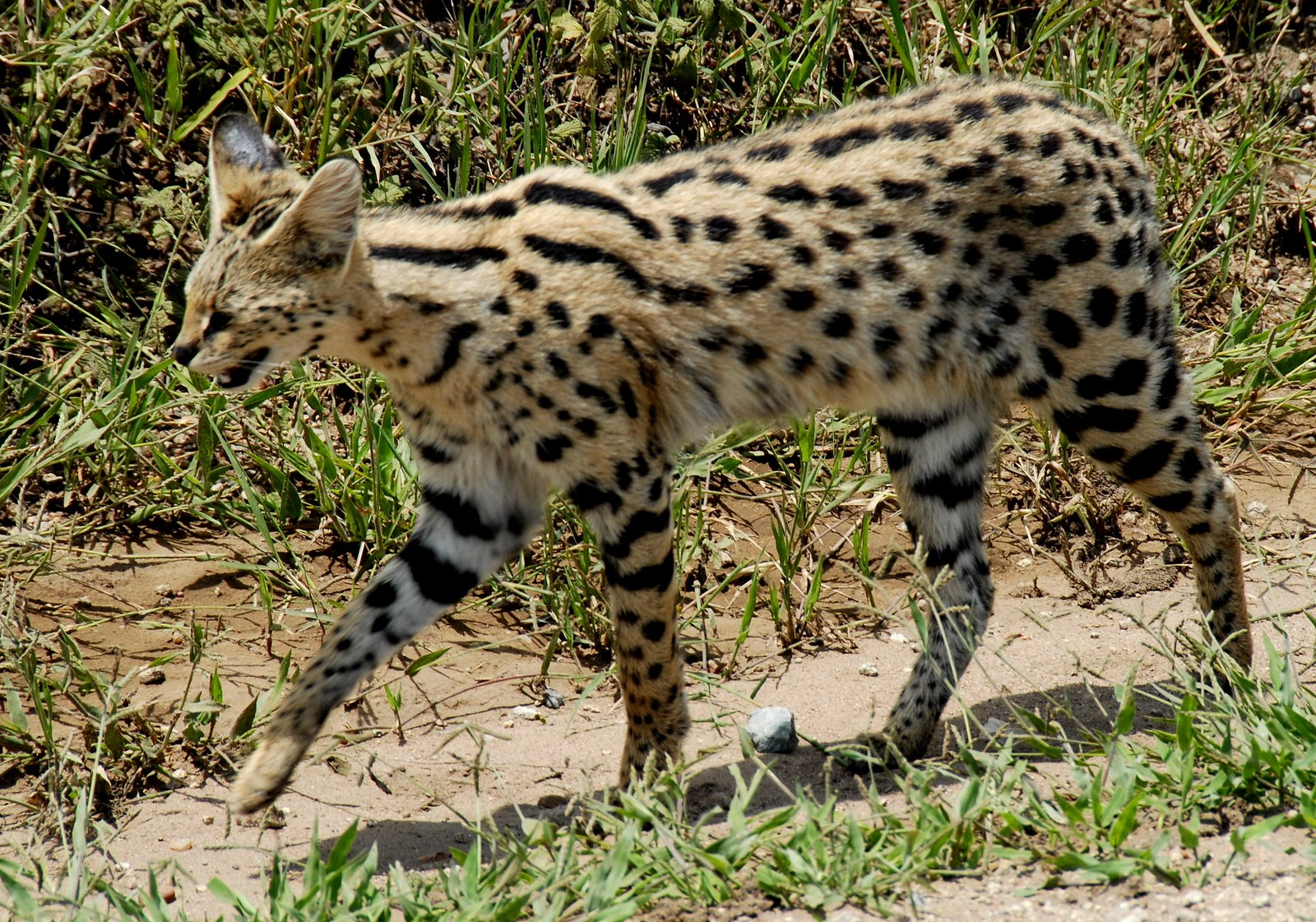 A serval cat at Serengeti National Park, Tanzania.